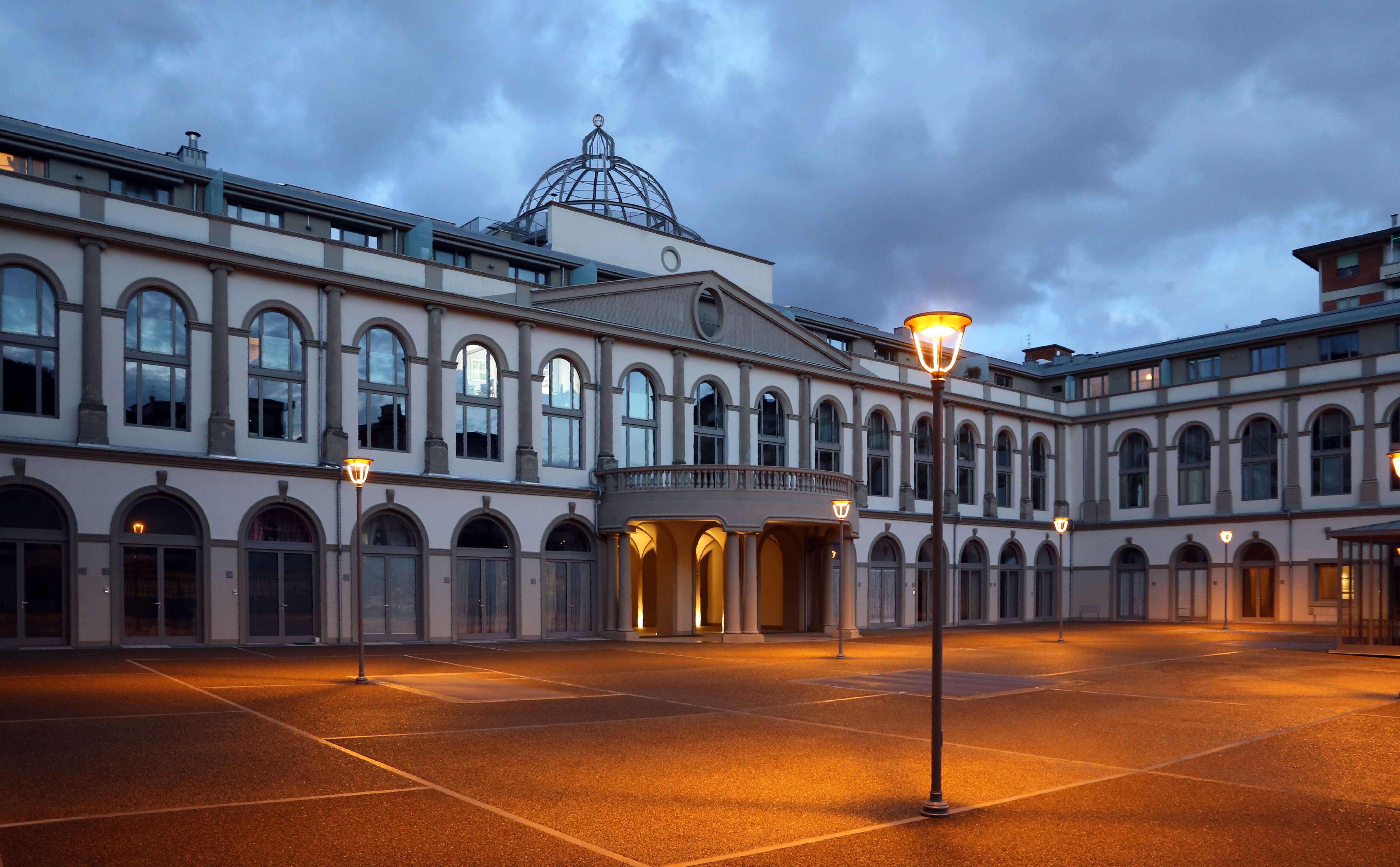 Villa San Donato